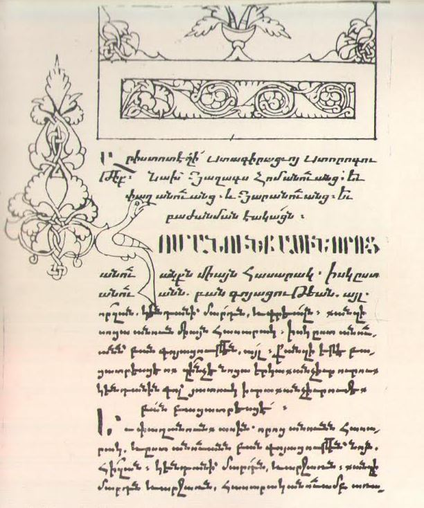 Aristotle's Armenian manuscript